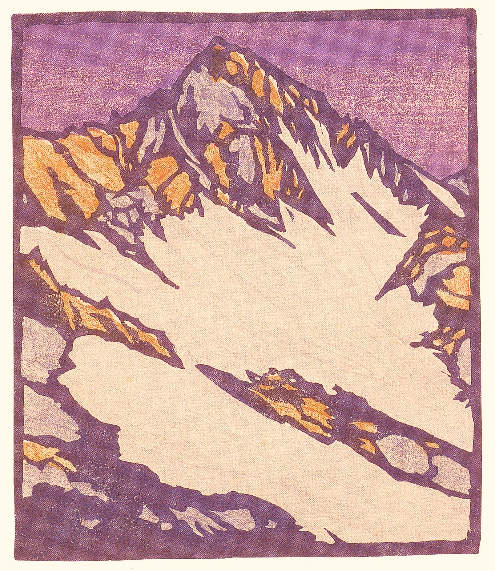 An image of the 19200 woodblock print "Source of the Glacier" by William Seltzer Rice